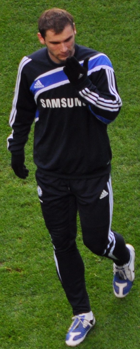 Ivanovic warming up for Chelsea in December 2009